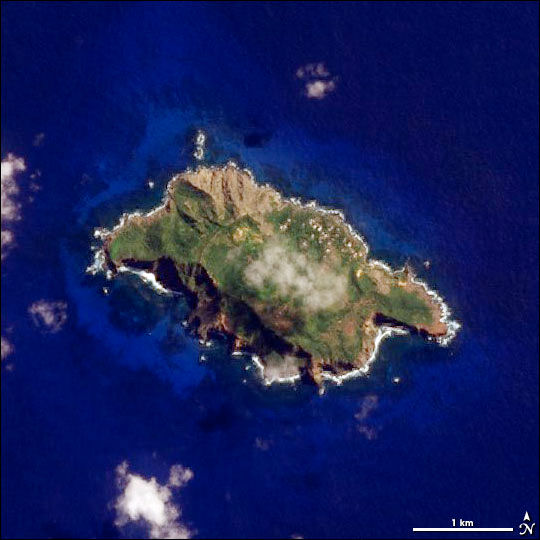 NASA Satellite Image of Pitcairn Island in the Pacific Ocean